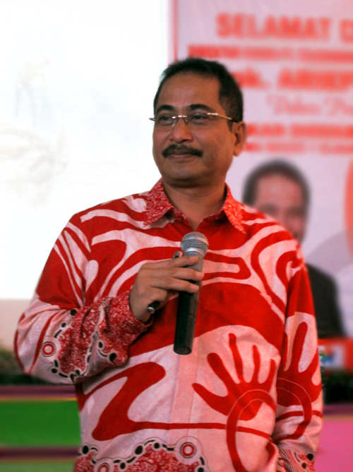 Arief Yahya CEO Telkom